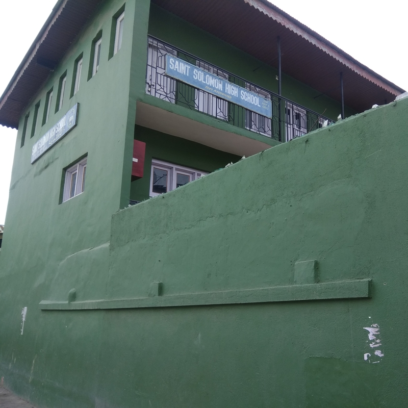 Building from main road.